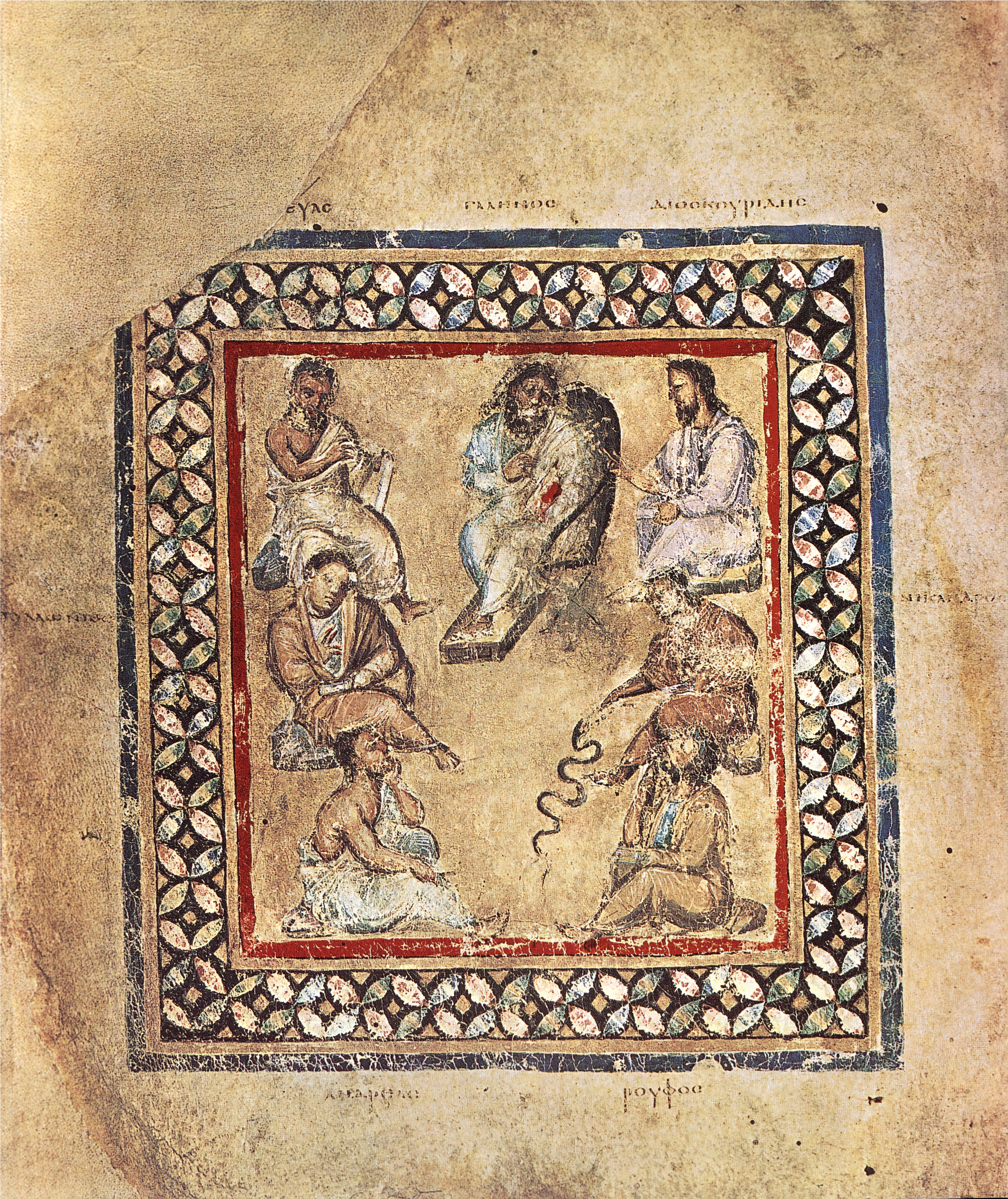 Galen's Group. The second physician's portrait from the Codex of Vienna Dioscurides (Constantinople around 512 CE) is named after the physician Galen shown in the top center above. Further clockwise: Pedanios Dioskurides, Nicandros (with snake), Ruphos (Rufus) of Ephesus, Andreas (personal physician of Ptolemy IV Philopator), Apollonios (identification unclear: either Apollonios of Pergamon, Apollonios of Kiton or Appollonius Mys) and Crateuas (fol. 3. verso)